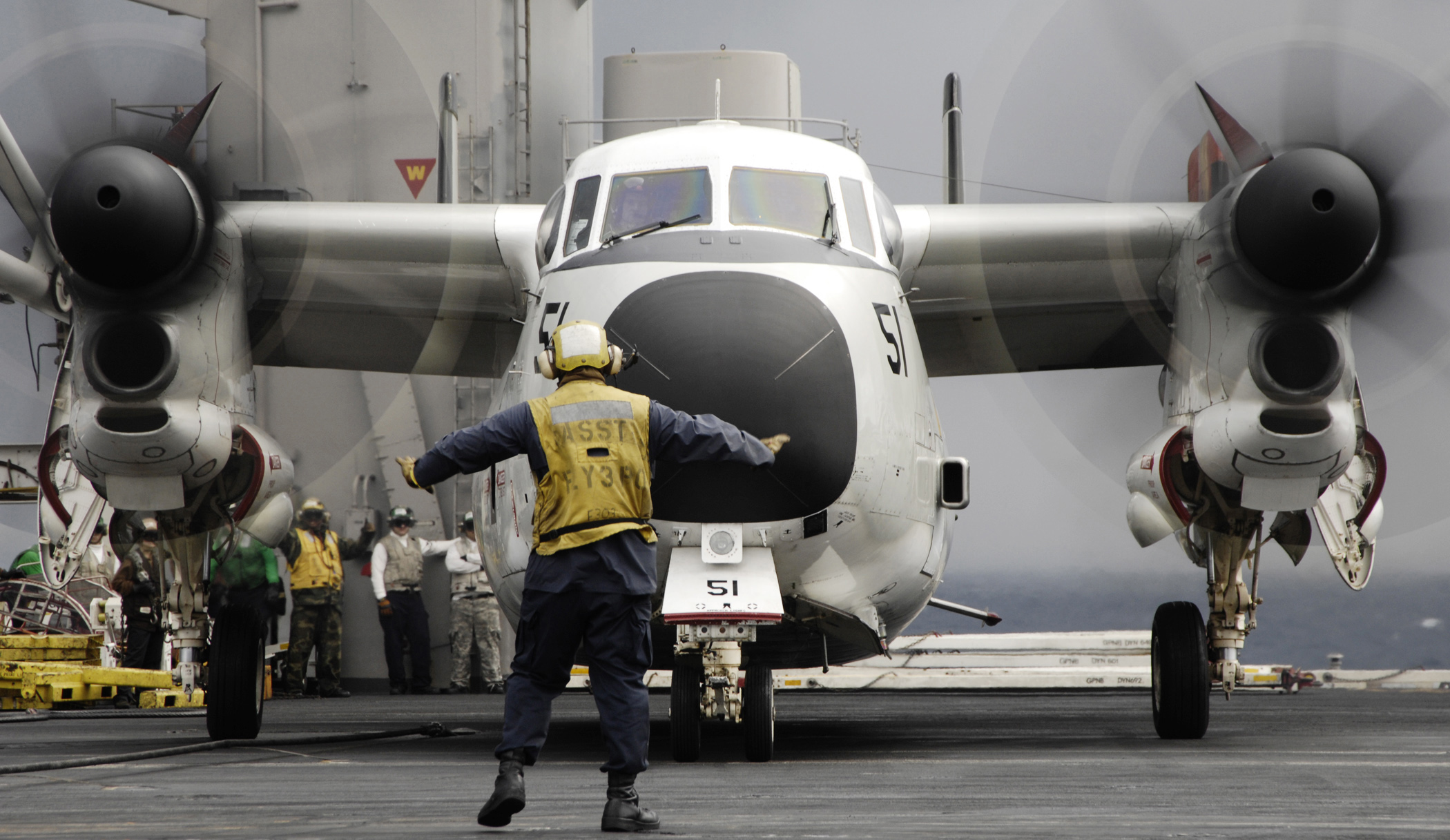 An aircraft director guides a C-2A Greyhound aircraft across the flight deck aboard the aircraft carrier USS Harry S. Truman (CVN 75) upon completion of daily flight operations while underway in the Atlantic Ocean conducting carrier qualifications on Dec. 8, 2009.